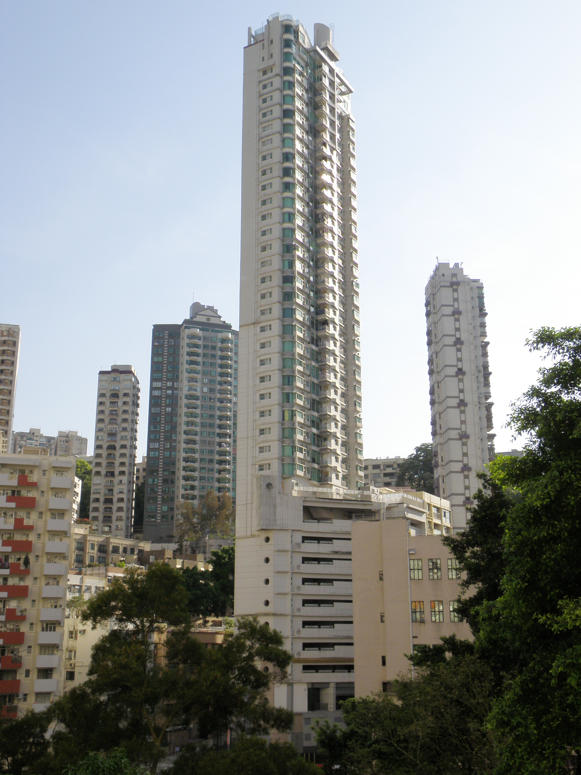 Grand Deco Tower in Tai Hang, Hong Kong.